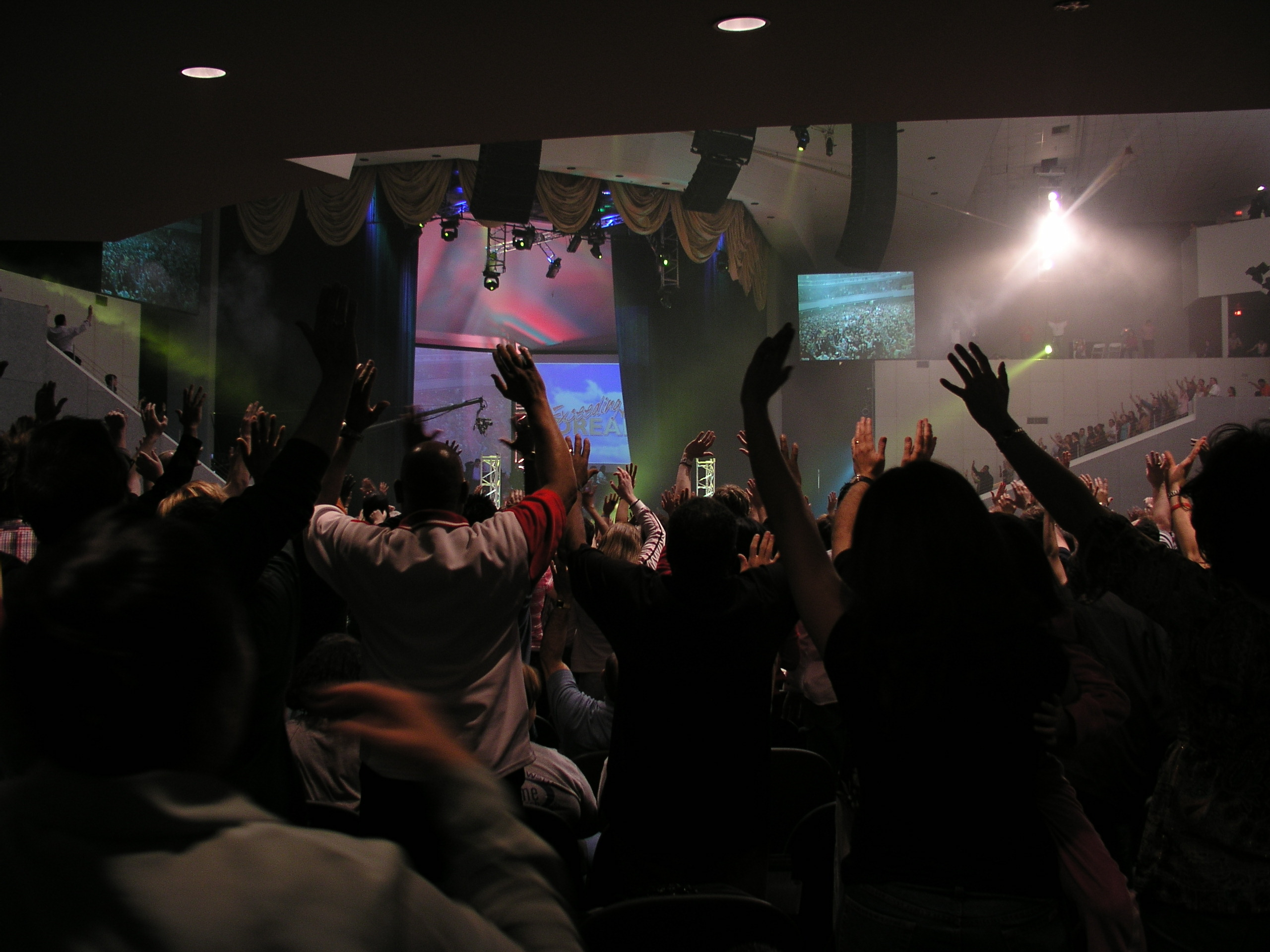 Phoenix First Assembly of god, facing the stage (2nd picture)